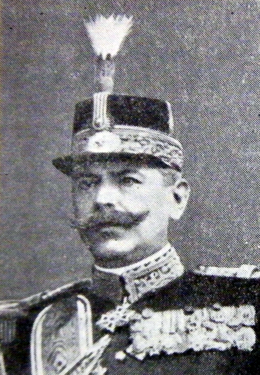 General Ioan Istrate - infantry division and corp commander during the WW I.